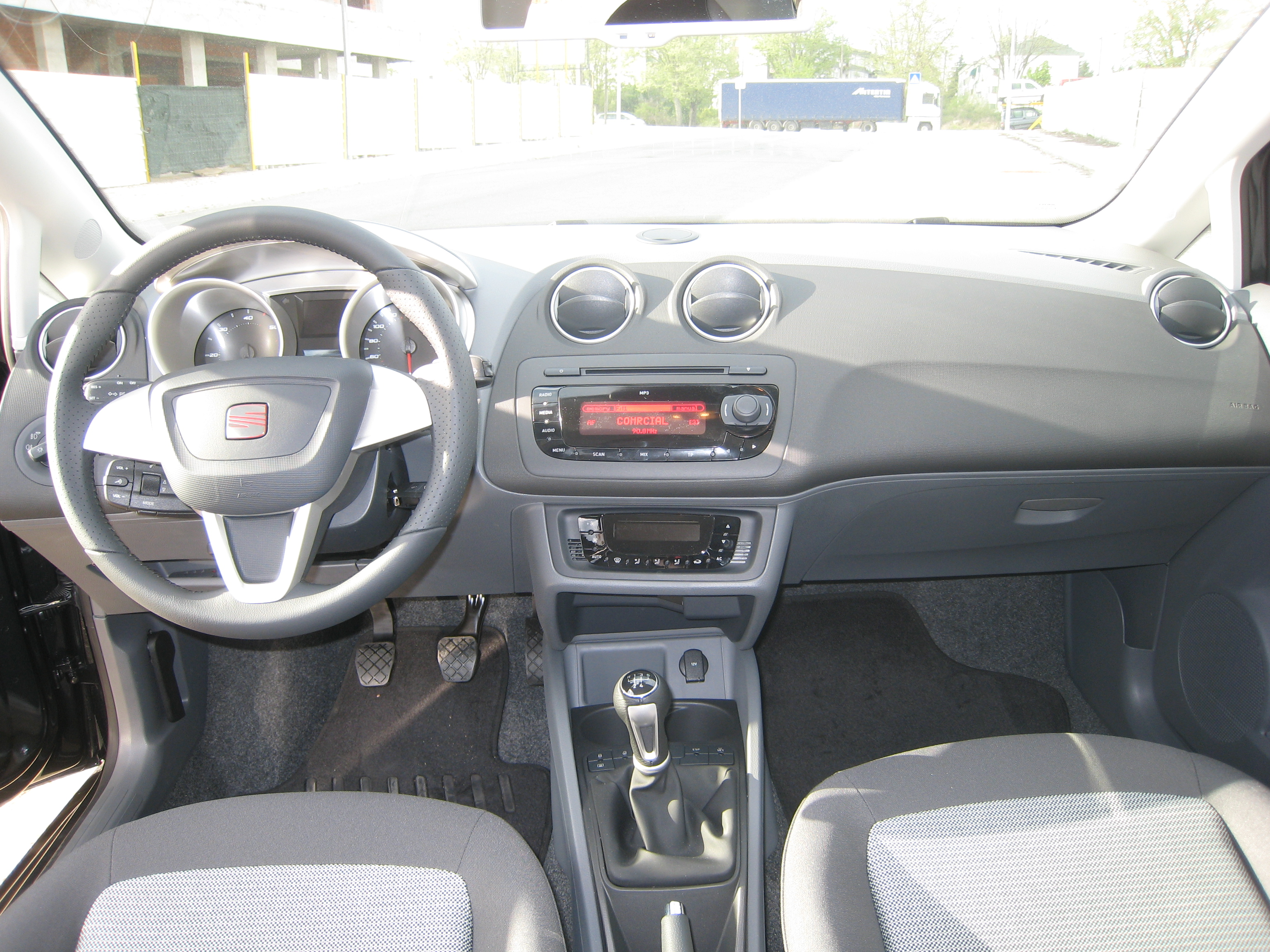 Seat Ibiza 1.9 TDI 105cv DPF Stylance